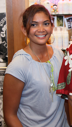 An Afternoon with Lat at a Kiehl's cosmetic shop in Mid Valley Megamall, Bangsar, Kuala Lumpur